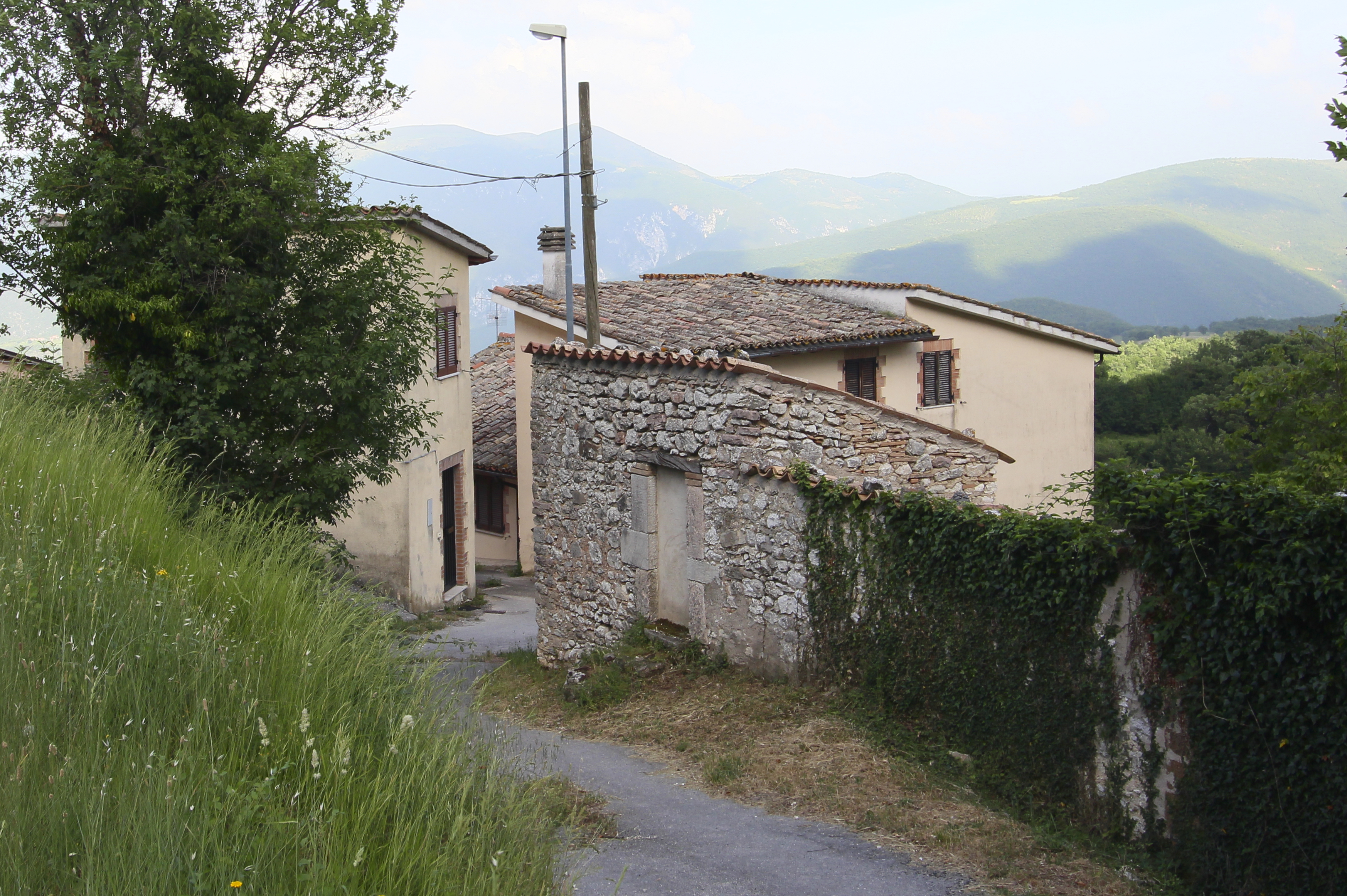 Macchia, hamlet of Cerreto di Spoleto, Province of Perugia, Umbria, Italy